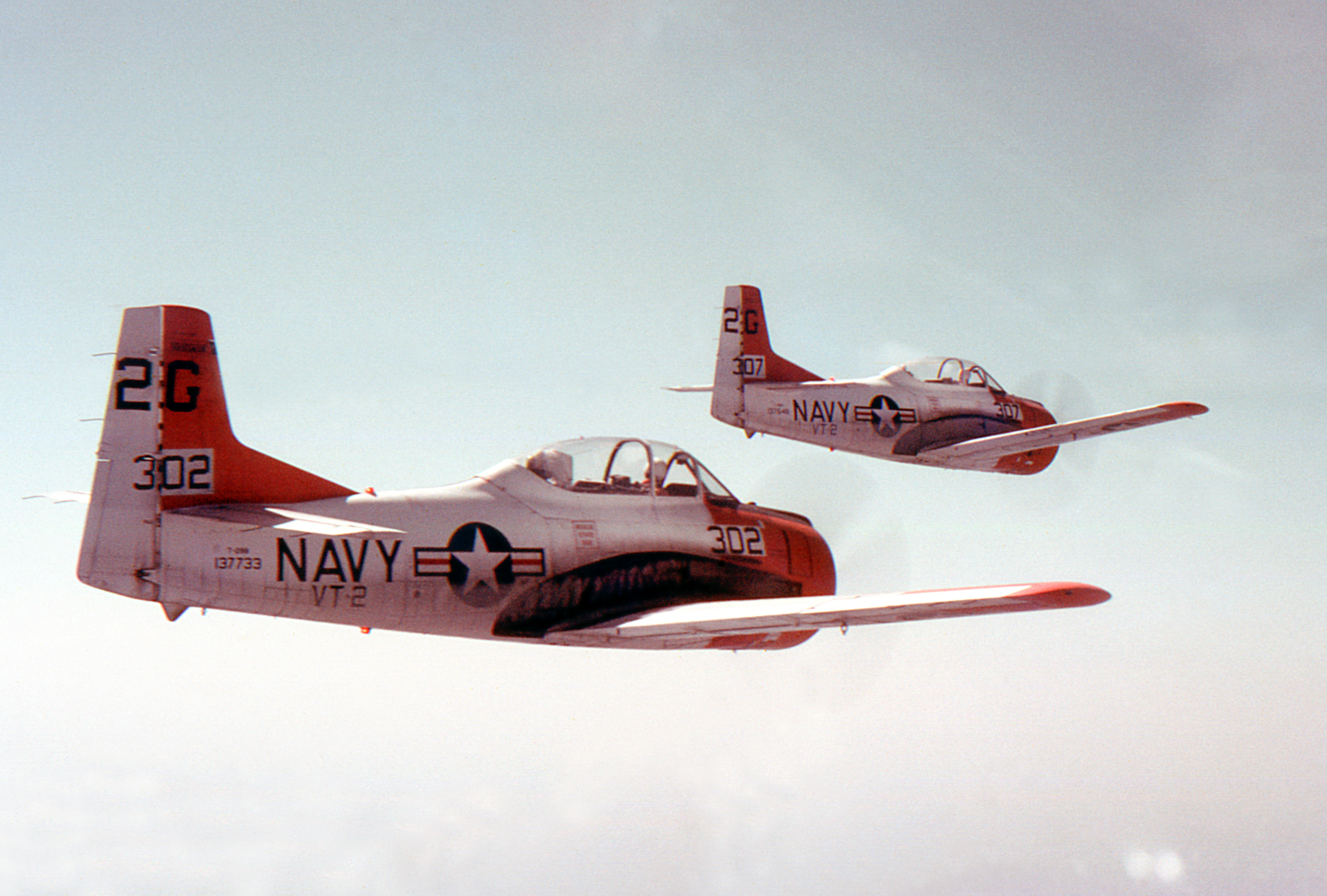 Right echelon formation training flight of two T-28Bs from VT-2 NAS Whiting field in 1967. Scan of a color slide taken by author using a Kodak Retinette.